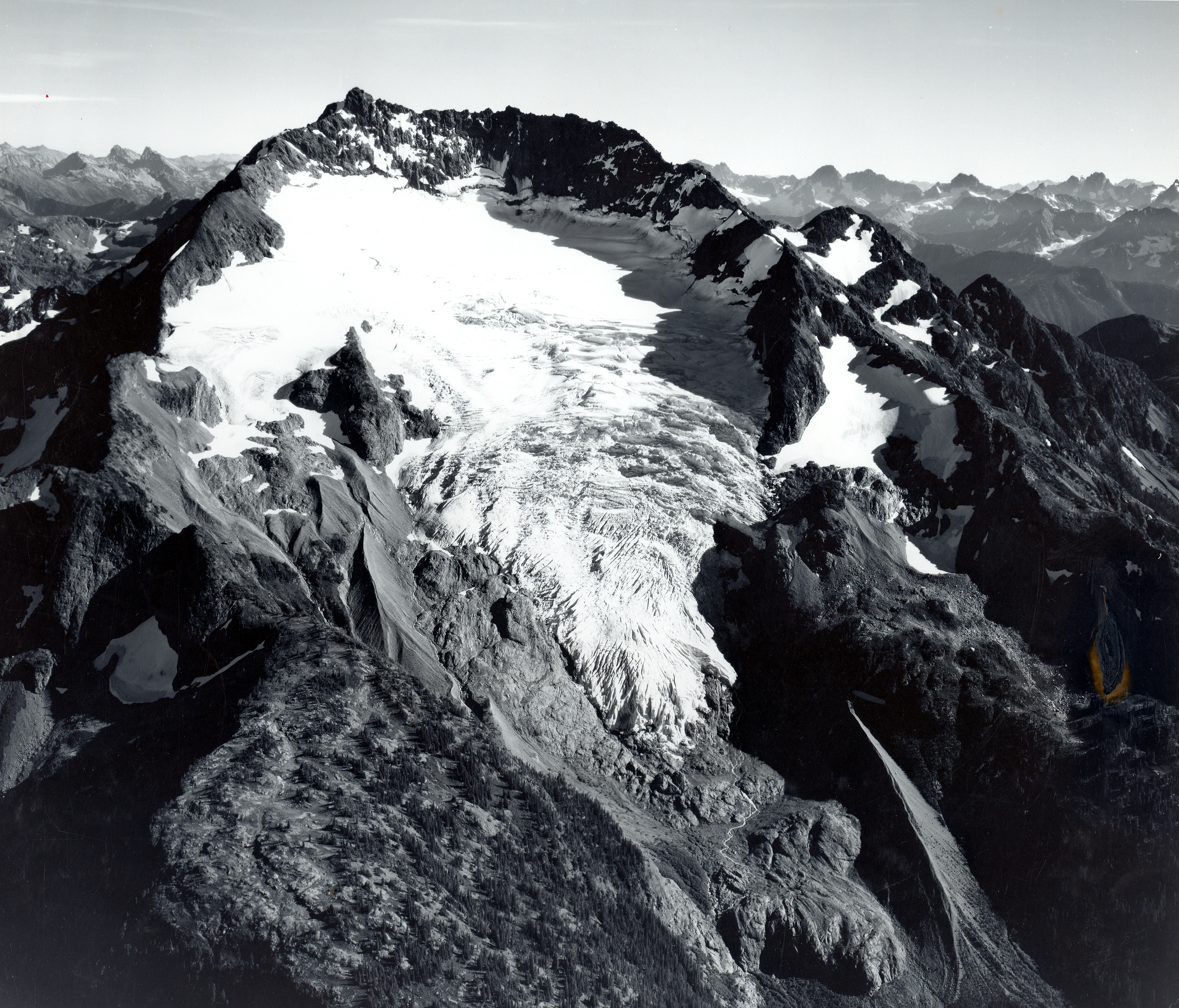 Nohokomeen Glacier at the head of May Creek on the northwest face of Jack Mountain (2,721 m). This active glacier is east of the rain shadow formed by the Picket Range. Only small glaciers can be seen on the mountains in the background, many of which exceed 2,700 m in altutude. Pasayten Wilderness, Whatcom County, Washington. September 20, 1966. Published as plate 3-H in United States Geological Survey Professional paper 705-A. 1971.